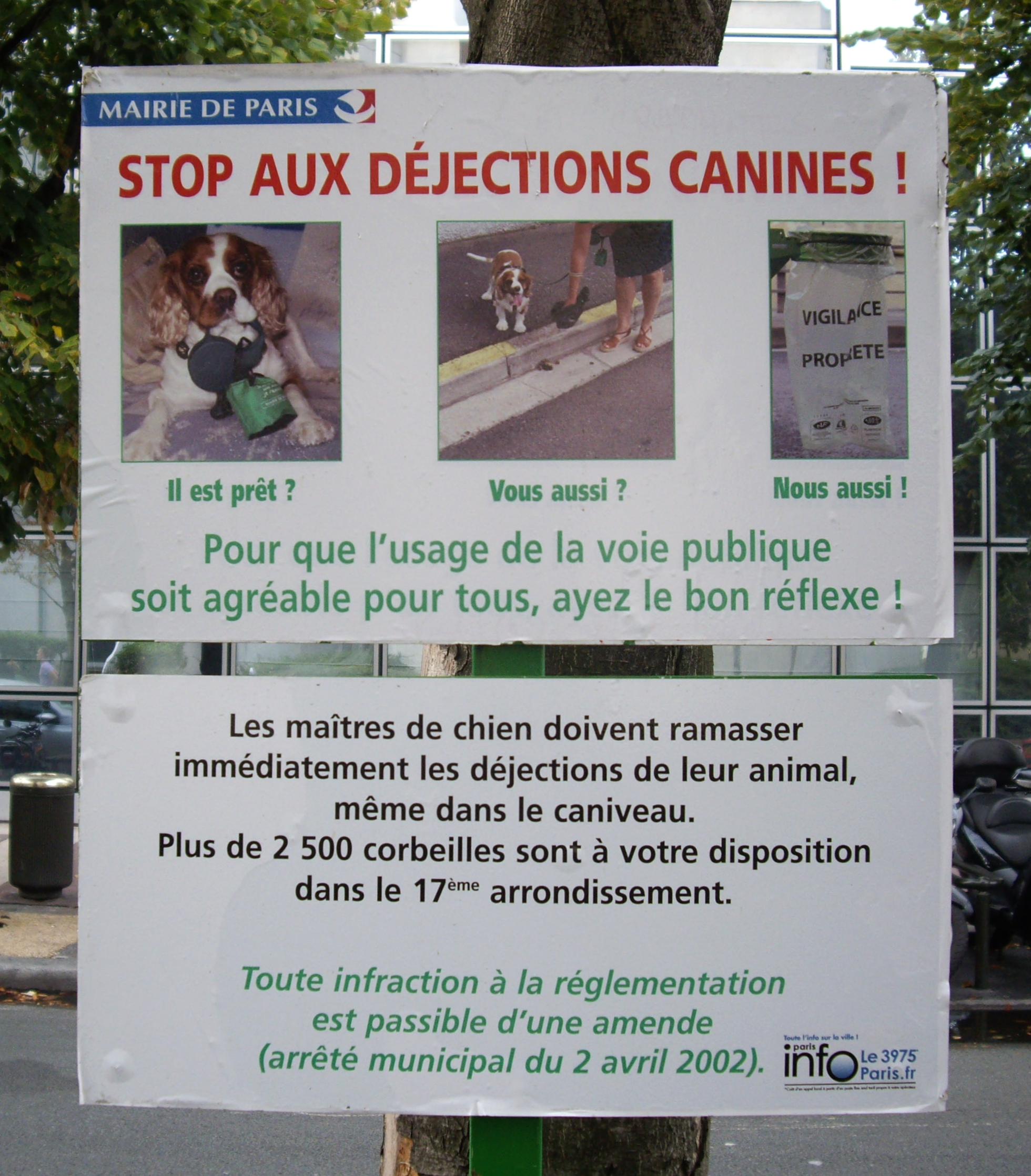 Stop dog droppings! Public notice in Paris warning that dog owners who do not clean up after their pets will be fined.